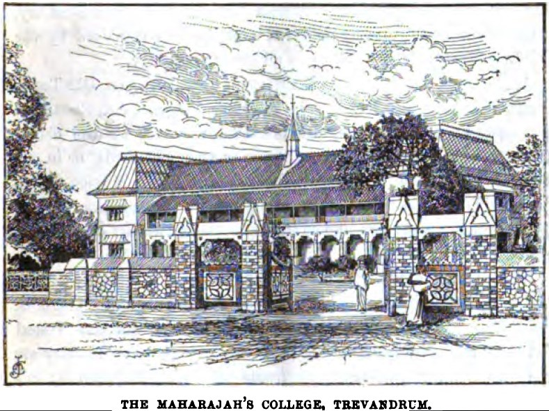 The Maharajah's College, Trevandrum (p.103, 1891), London Missionary Society